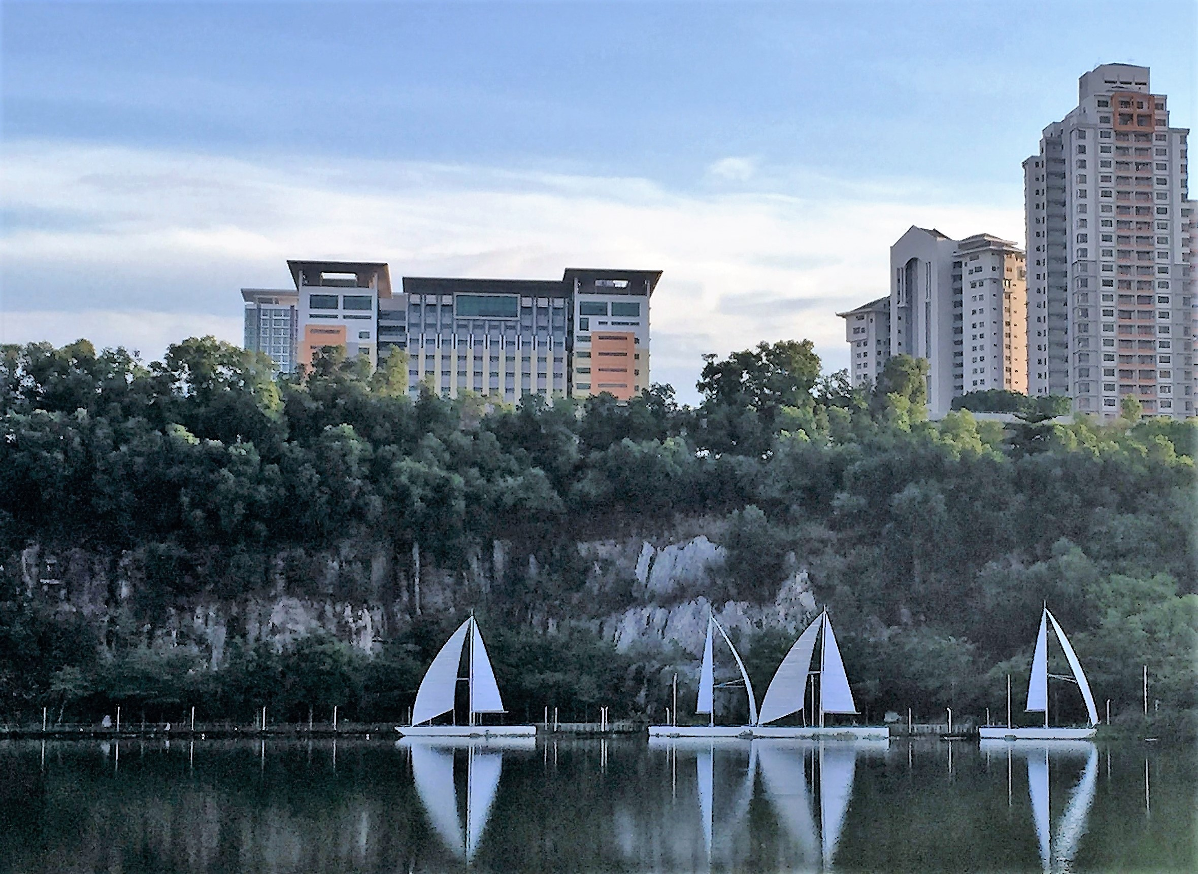 Photo of Sunway University from South Quay Lake